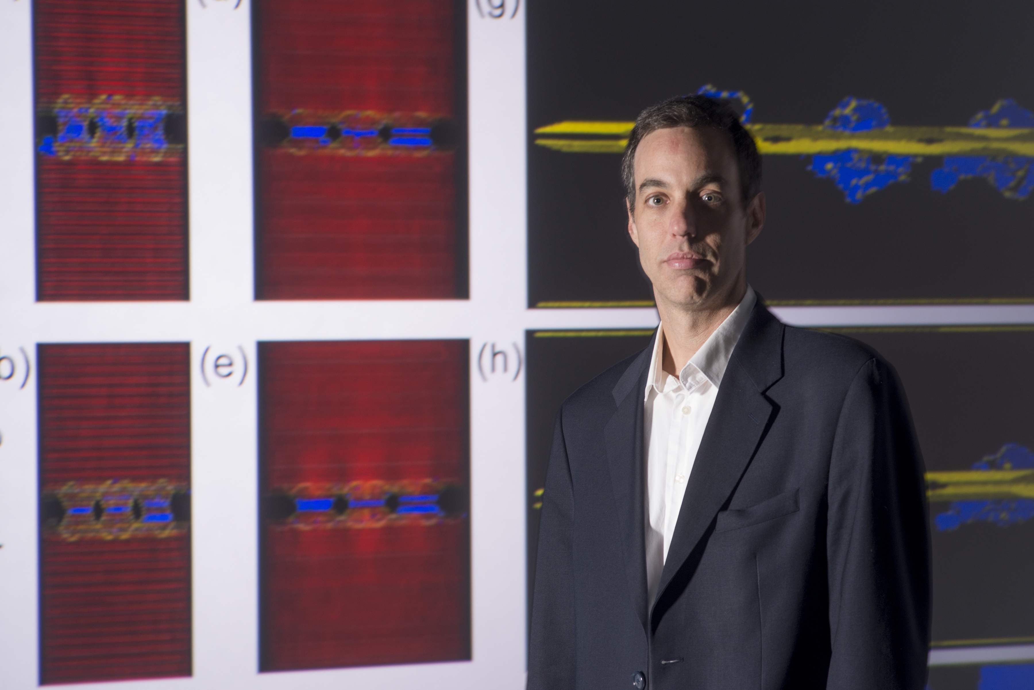 Photo of Alejandro Strachan